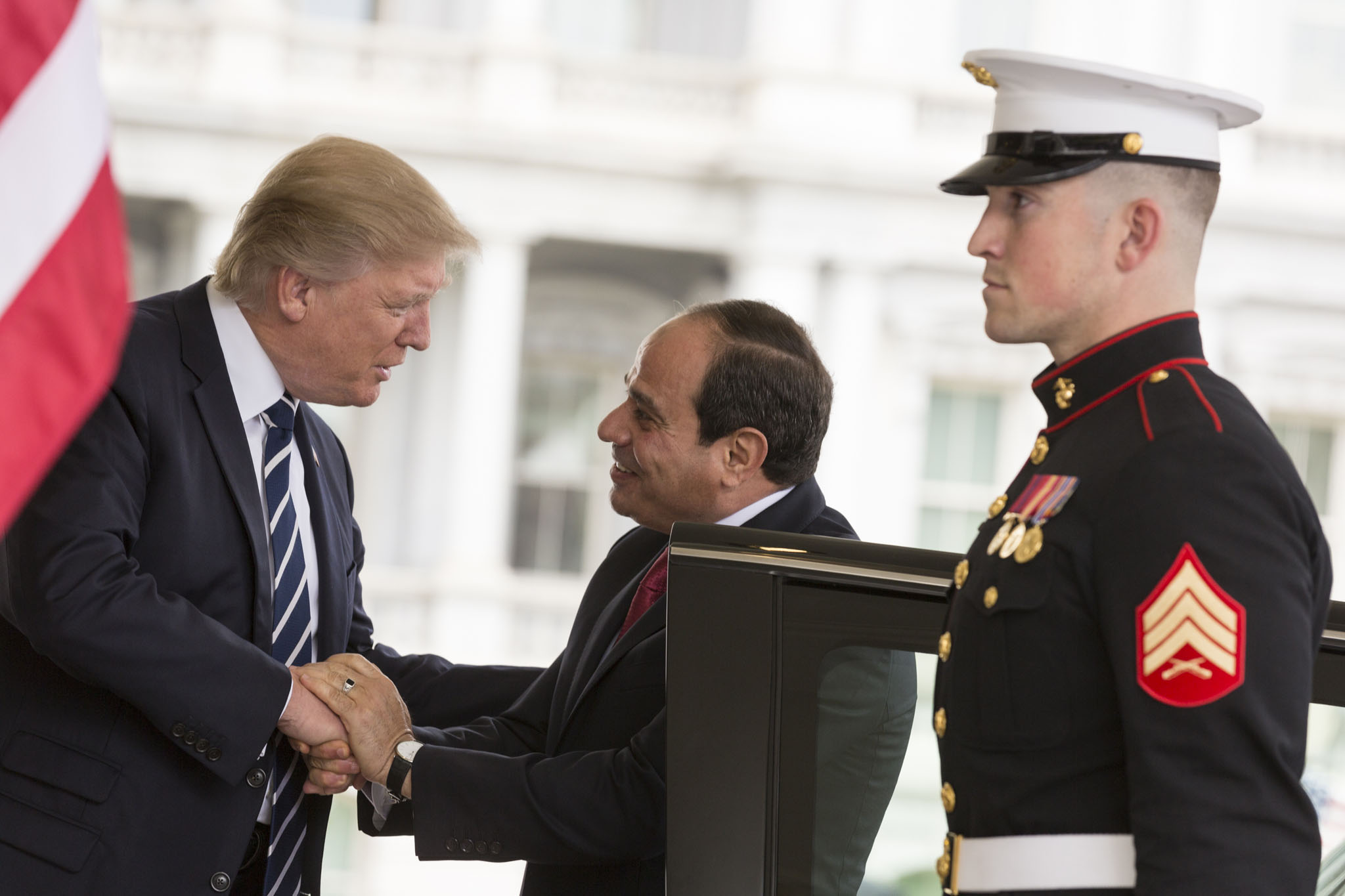 President Donald Trump welcomes Egyptian President Abdel Fattah Al Sisi, Monday, April 3, 2017, at the West Wing entrance of the White House in Washington, D.C. (Official White House Photo by Shealah Craighead)